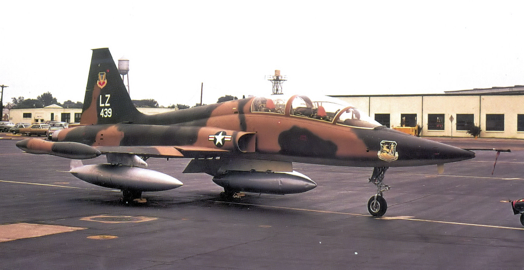 425th Tactical Fighter Training Squadron Northrop F-5B-50-NO Freedom Fighter 72-0439, Williams AFB, Arizona, 1973. Aircraft crashed near Tucson, AZ Jul 27, 1982 following collision with F-5 73-0899. All three occupants from both aircraft ejected but one was killed.